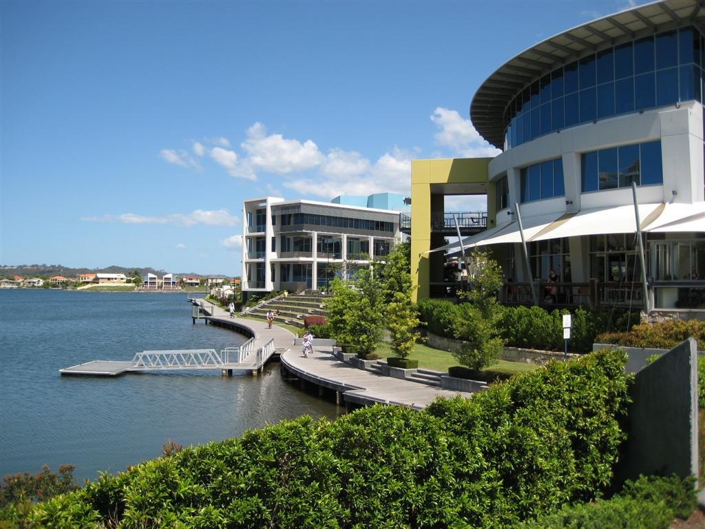 Varsity Lakes 2007